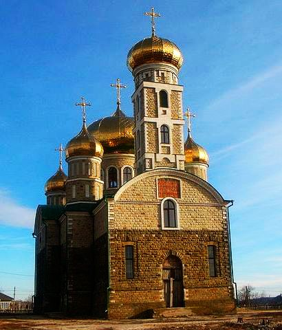 Satul Glinjeni, Manastirea Sf.Treime — in Moldova.